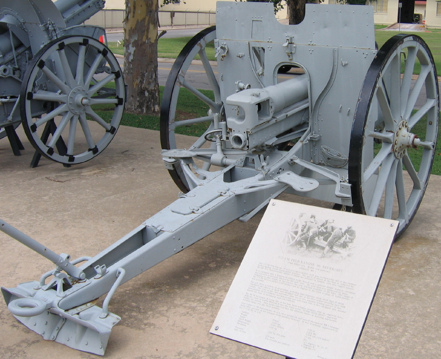 A FK 96 n.A. at the U.S. Army Field Artillery Museum, Ft. Sill, Oklahoma